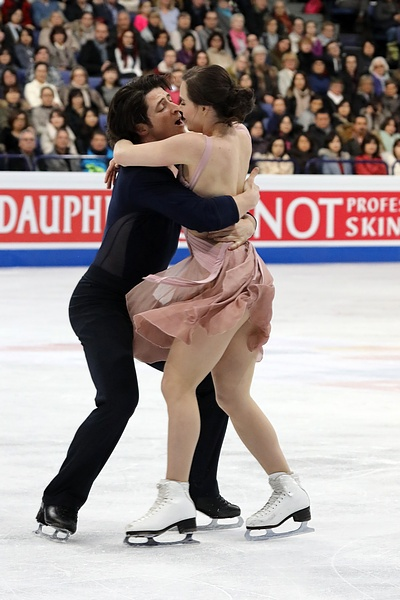 Tessa Virtue and Scott Moir at the 2017 World Championships